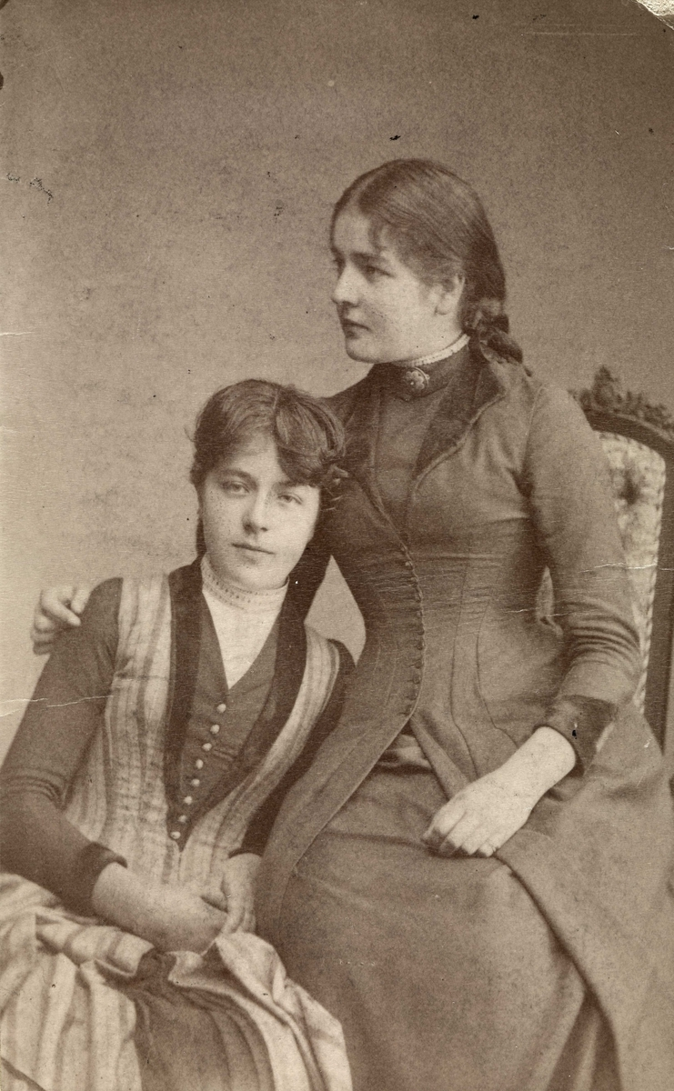 Depicted people: Astrid Lous and Lulli Lous